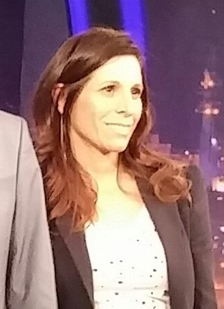 Orna Banai in "Gav Ha'uma", a satirical Israeli television show. Filmed in Herzliya, 2015.